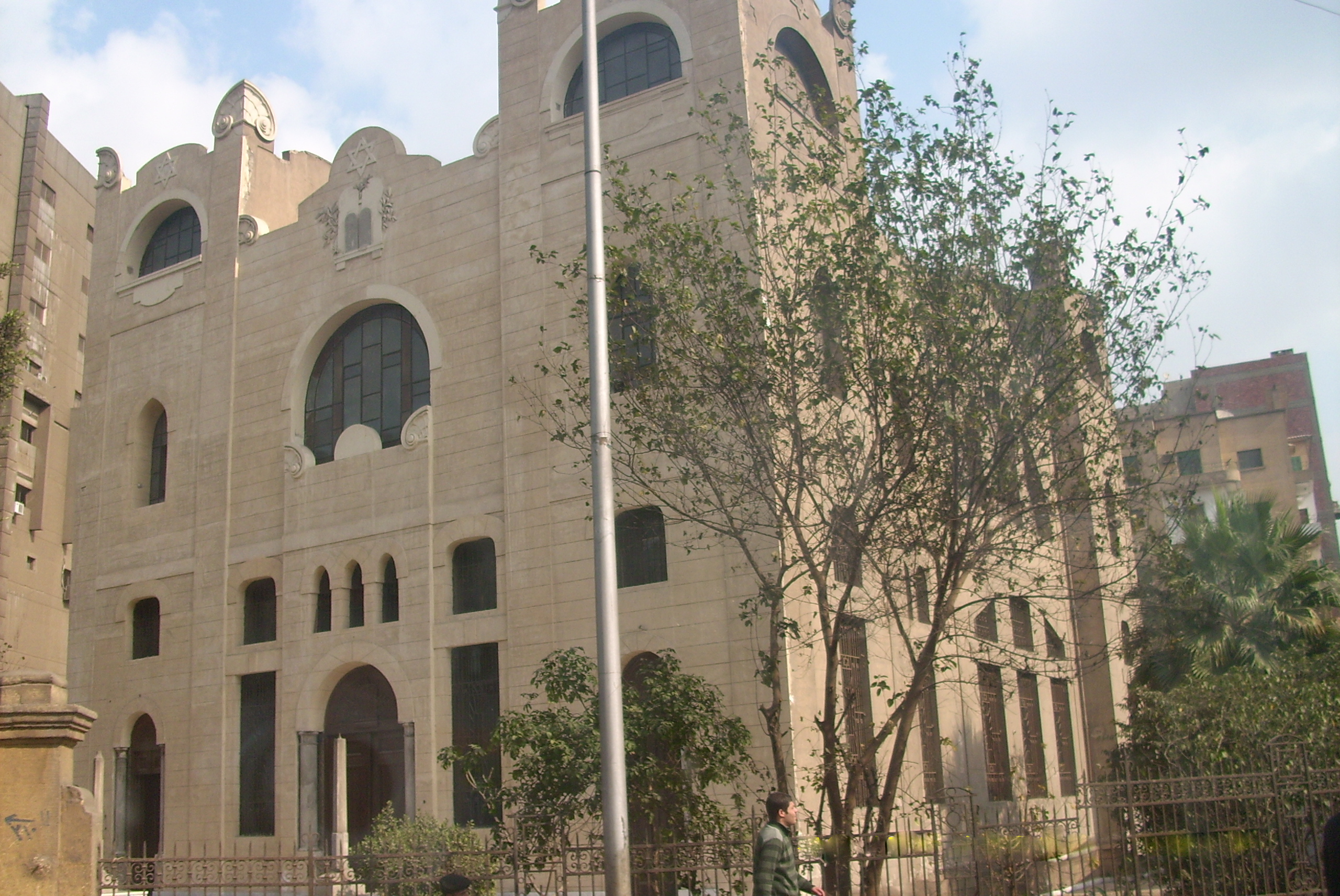 Jewish Temple, Abbasyia, Cairo